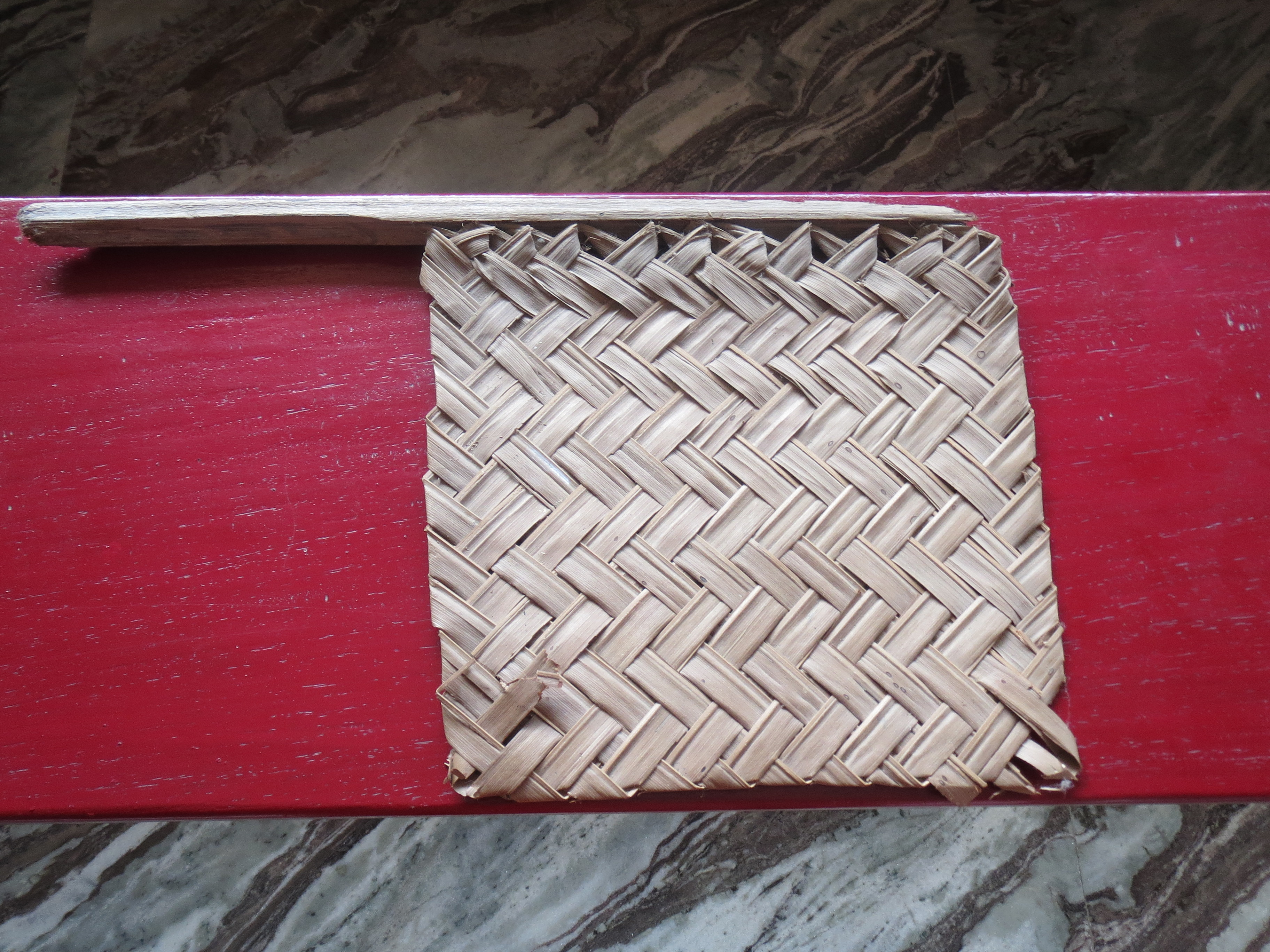 A hand made fan made of cocunut leaves. These fans were in usage in Tamil nadu before the arrival of electric fans. Tamil: செவ்வக வடிவ தென்னை ஓலை விசிறி. இவை மின்விசிறியின் வரவால் வழக்கொழிந்து போயின.